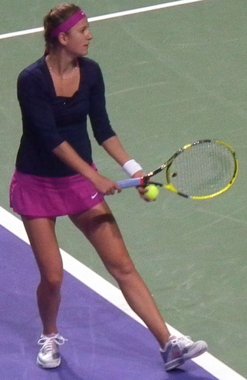 Victoria Azarenka at the WTA Istanbul 2011